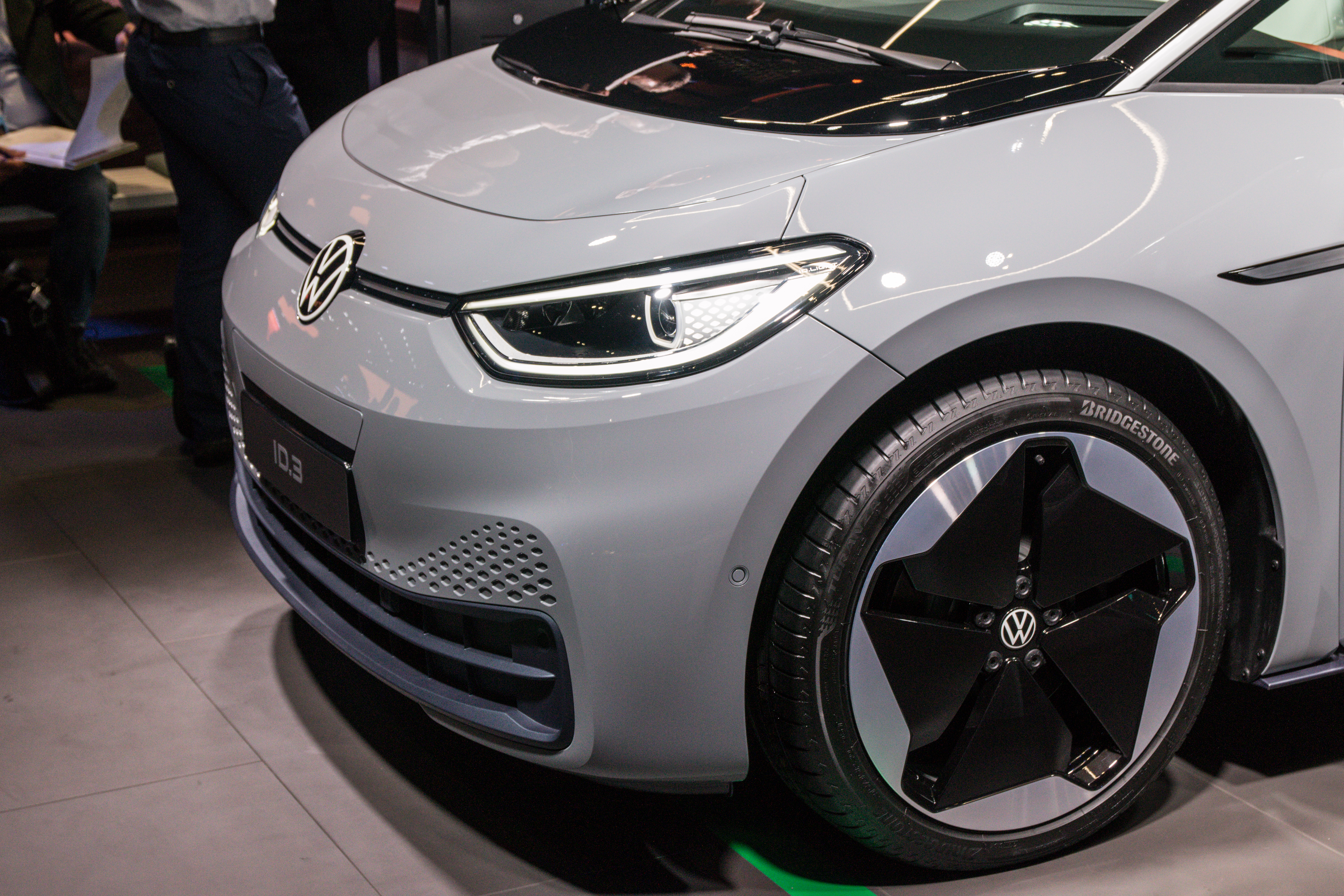 VW ID.3